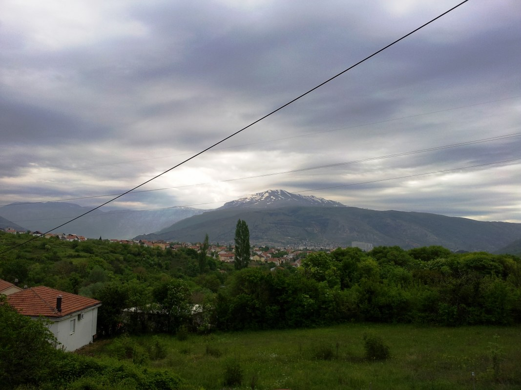 Velez Mountain seen from Ilici, Mostar